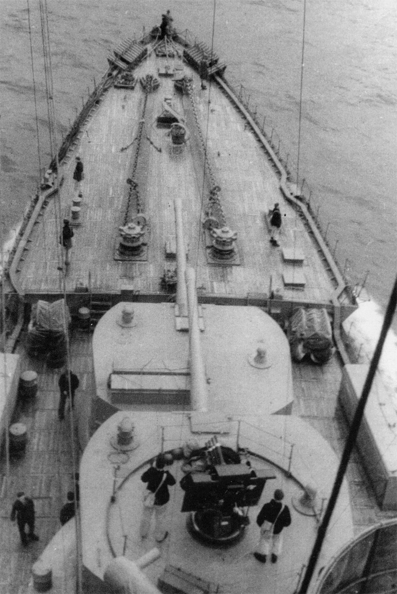 The main guns of the Soviet cruiser Krasnyi Kavkaz.